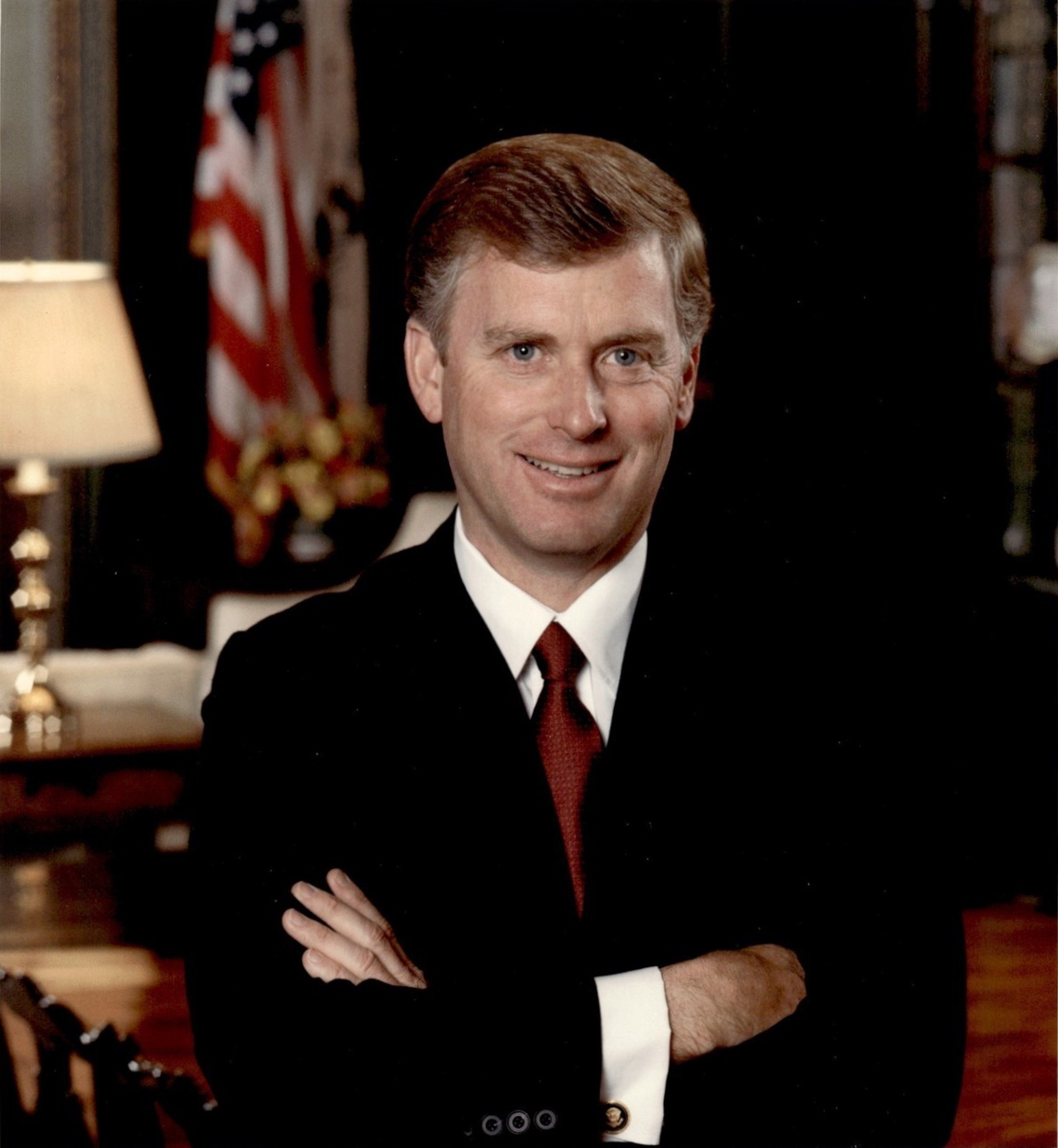 Offical photo of Fmr. Vice President Dan Quayle (1989-93)